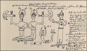 Drawing of four of the Grevensvaenge figurines (Nordic Bronze Age, first half of 1st millennium BC), by Marcus Schnabel. Immediate source: [1][2]. Details with better resolution: [3][4]